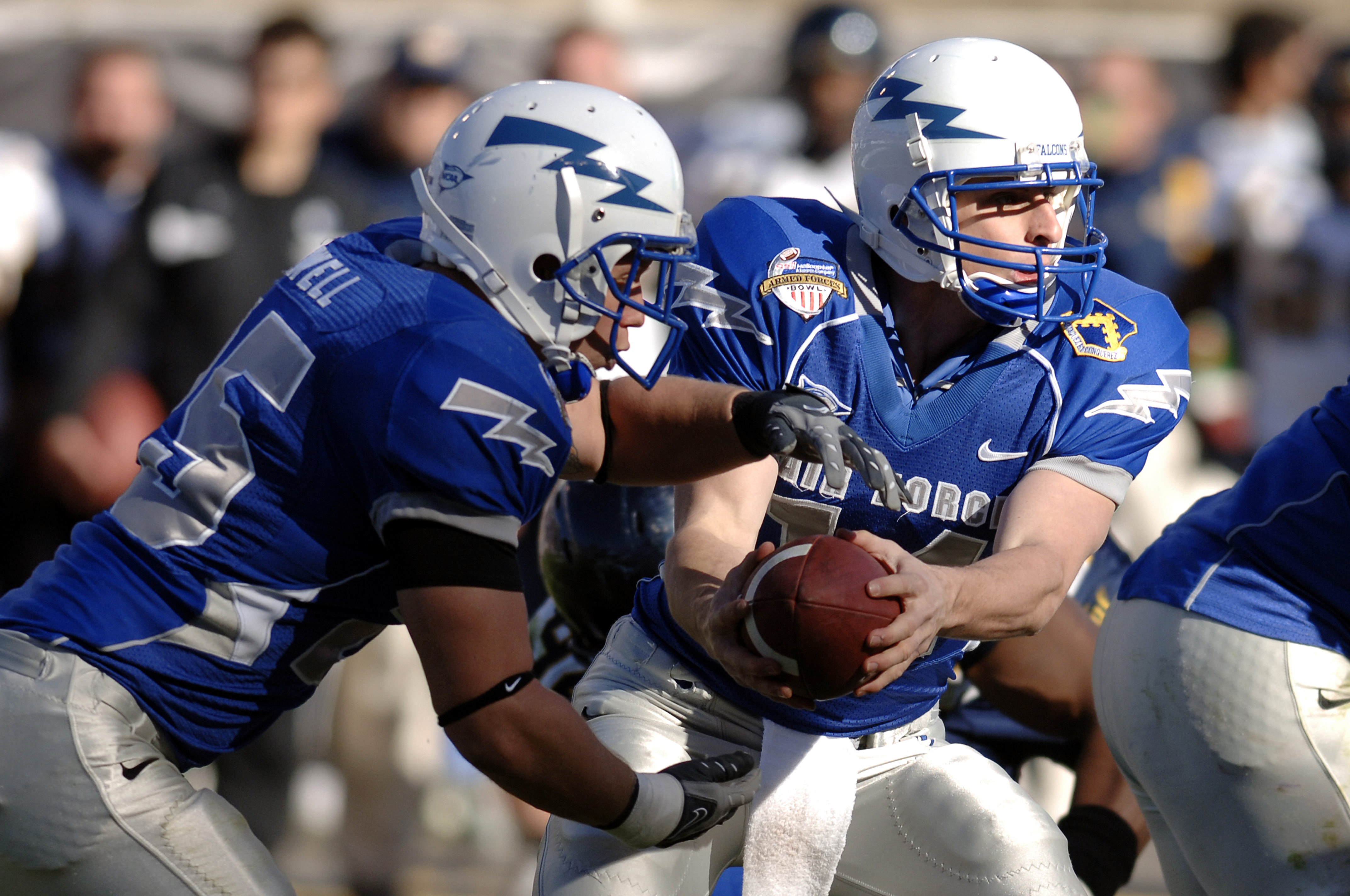 U.S. Air Force Academy junior quarterback Shea Smith hands off to junior fullback Todd Newell during the Bell Helicopter Armed Forces Bowl at Amon G. Carter Stadium in Fort Worth, Texas, Dec. 31, 2007. The academy lost 42-36 against the California Golden Bears in their first bowl appearance since 2002 before a bowl record 40,905 fans and a national television audience on ESPN. ID: 071231-F-0558K-017